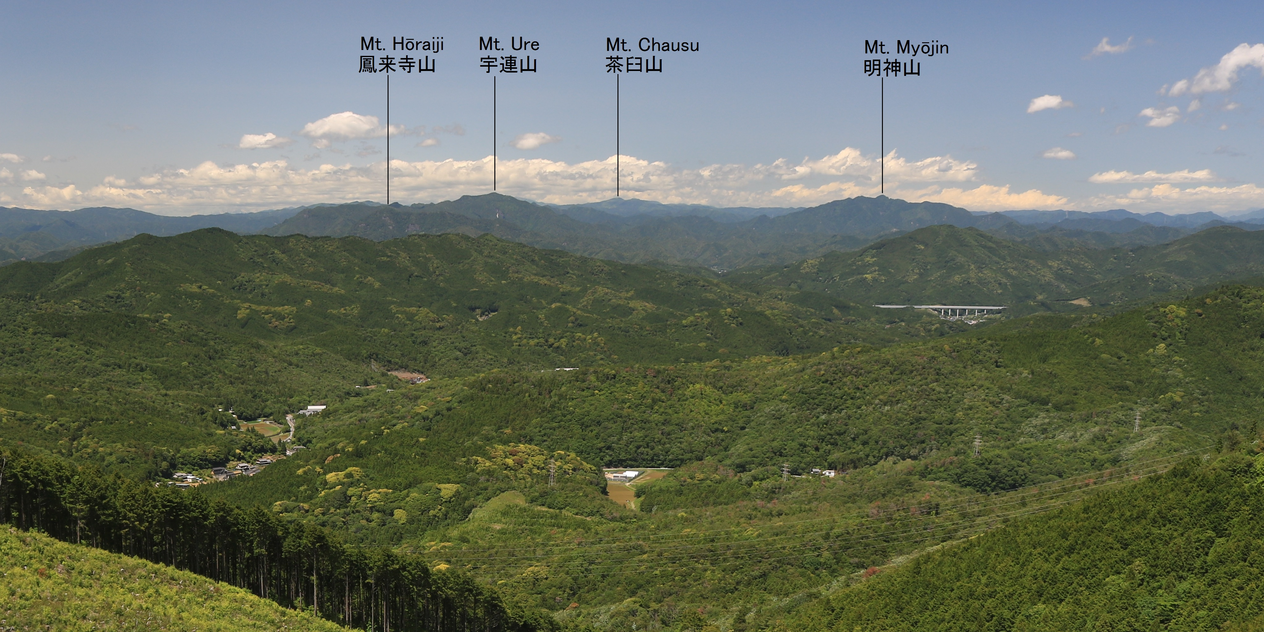 Mount Ure and Mount Myoji seen from Mount Tonmaku in Shinshiro, Aichi Prefecture, Japan.